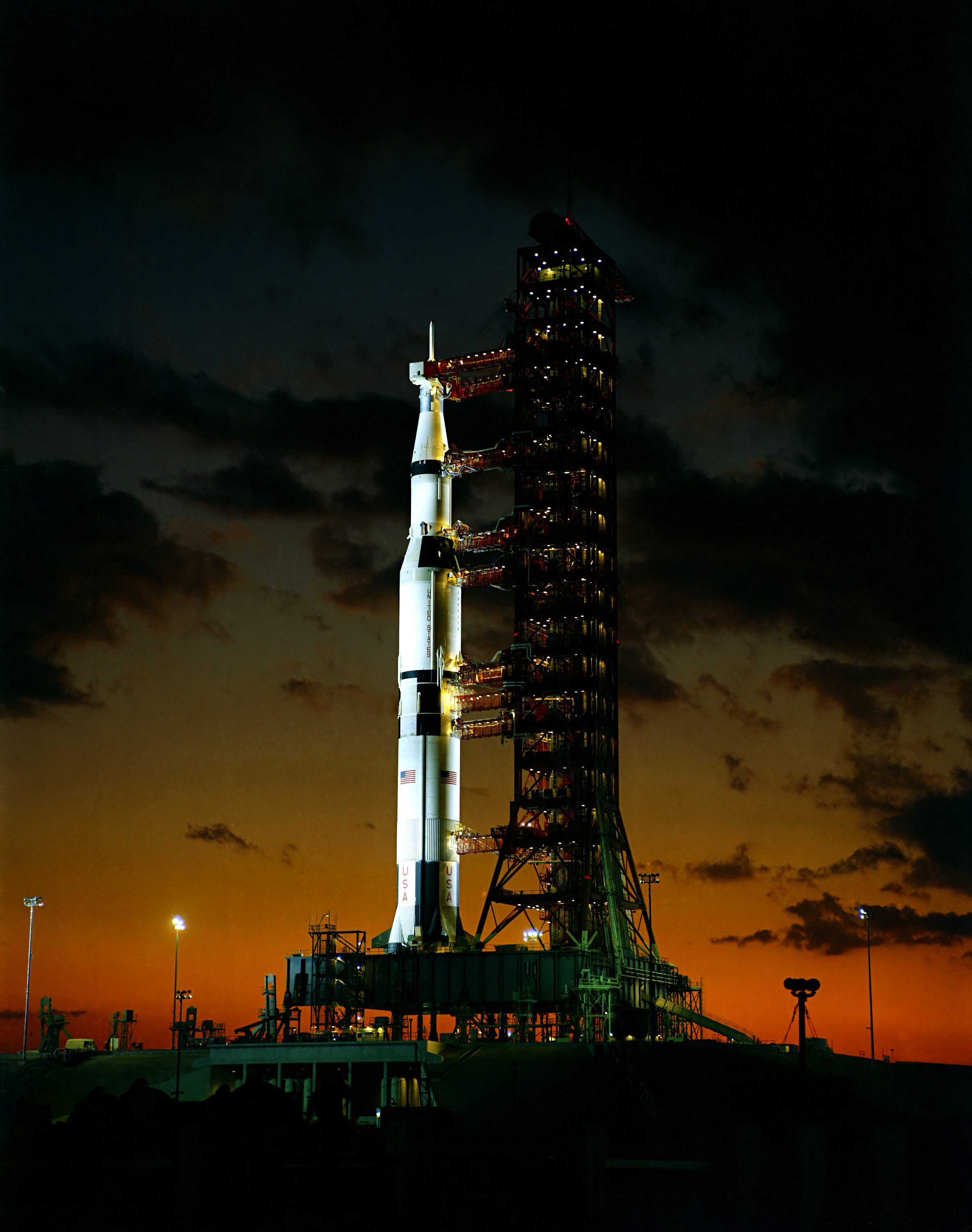 NASA description: "Early morning view of Pad A, Launch Complex 39, Kennedy Space Center, showing Apollo 4 (Spacecraft 017/Saturn 501) prior to launch" is incorrect according to File:Ap4-s67-50531.jpg.